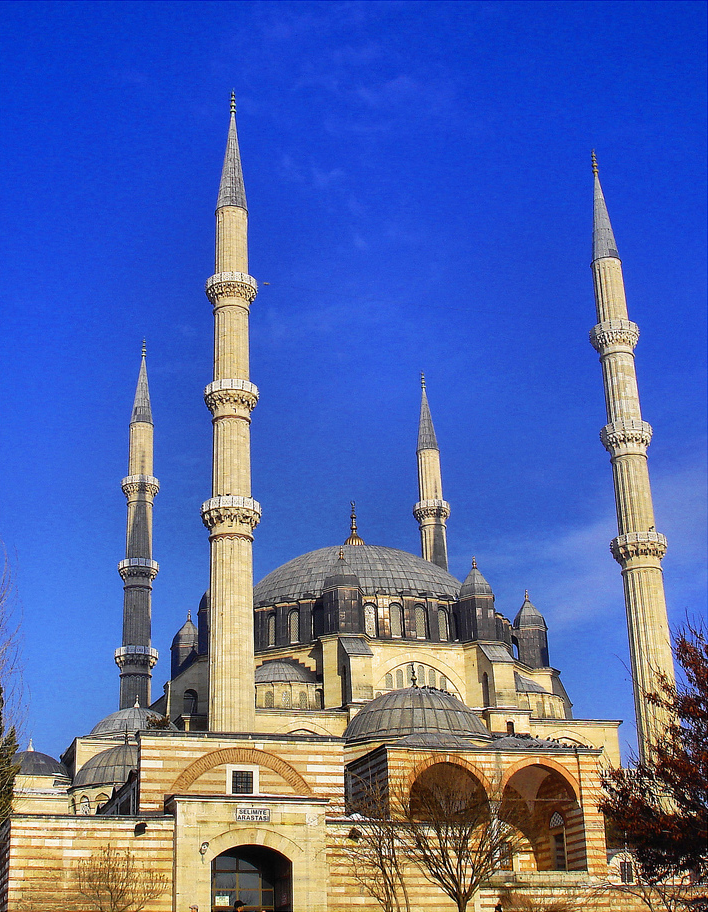 The Selimiye Mosque in Edirne, Turkey (.ca.1579)